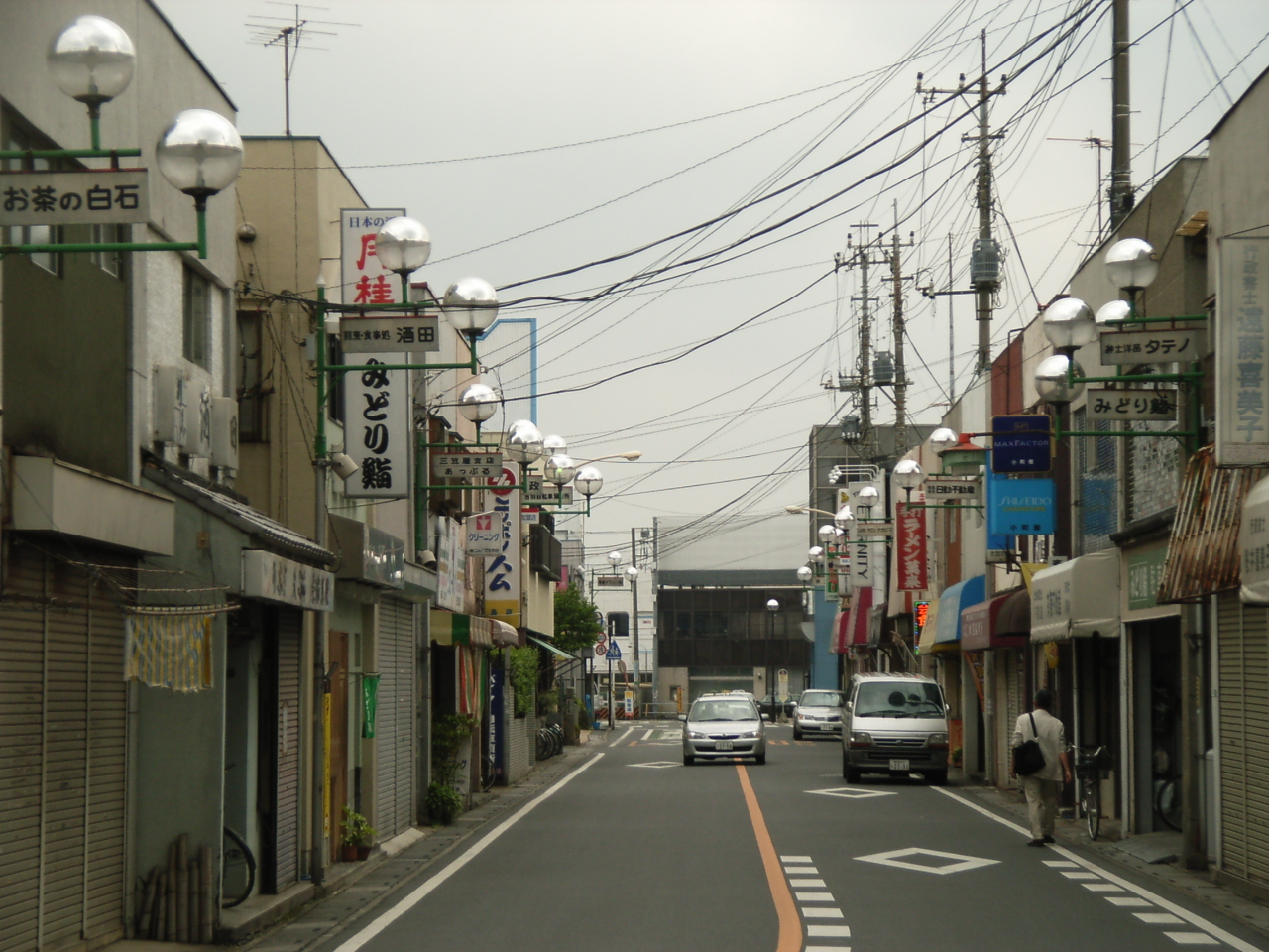 Saitama Prefecttural Road 137. Kurihashi-Teishajō Line. The street east from the Kurihashi Station, Kurihashi, Saitama Prefecture, Japan.